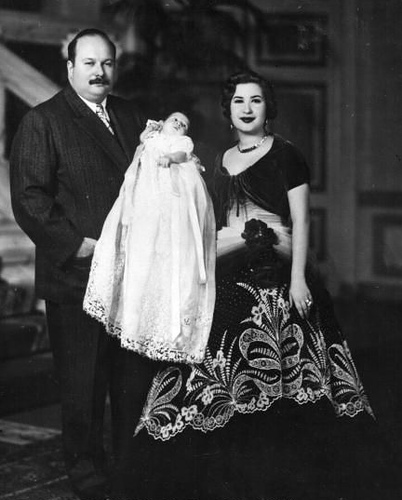 Farouk I of Egypt with Queen Nariman and and his son Ahmed Fouad II